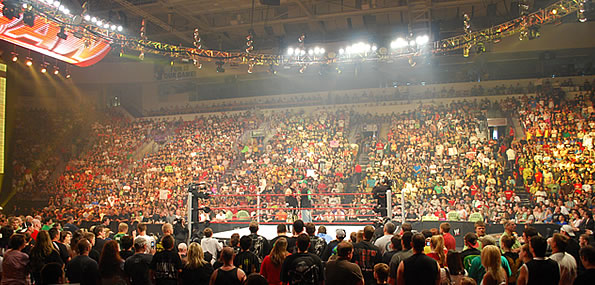 John Cena stares down The Miz